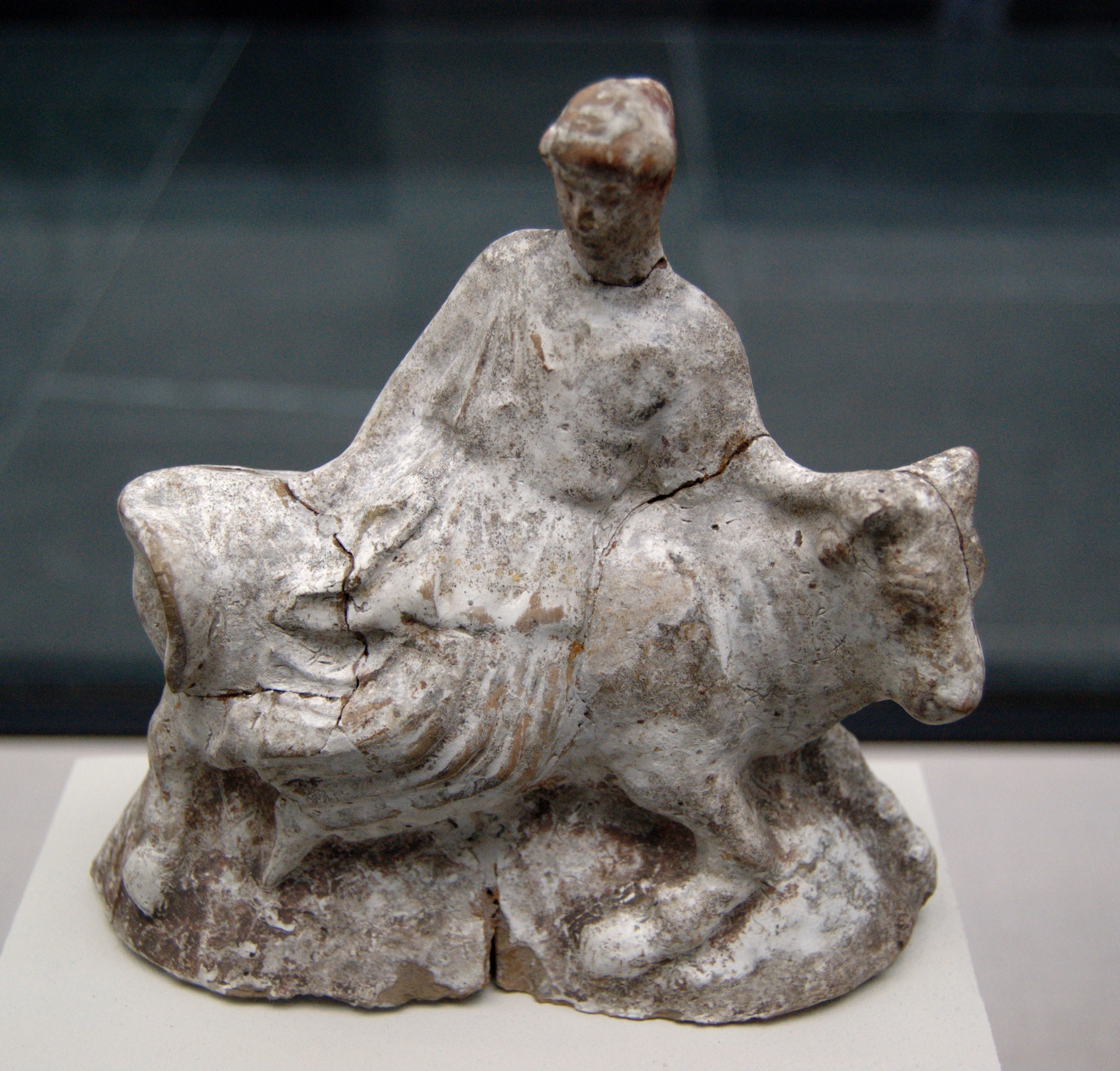 Europa and the bull. Terracotta group from Athens, 480–460 BC.